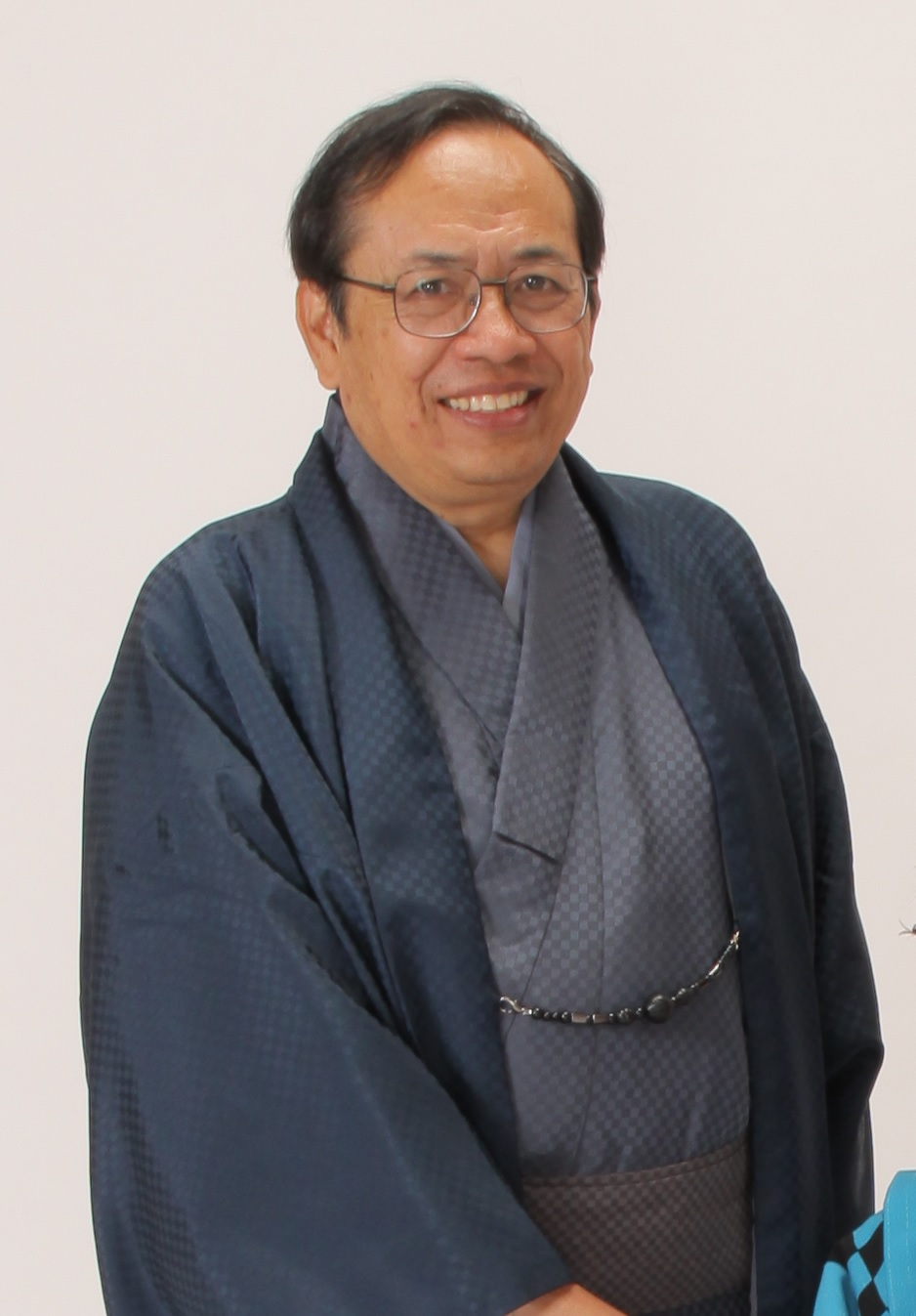 Faculty member of Ritsumeikan Asia Pacific University